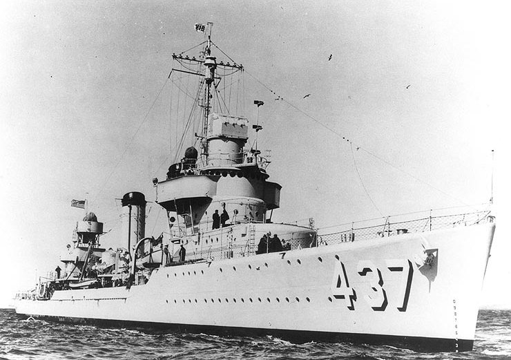 The U.S. Navy destroyer USS Woolsey (DD-437) off Kennebec River, Maine (USA), during her builder's trials, on 22 April 1941. Note the Bath Iron Works flag at the top of her foremast.